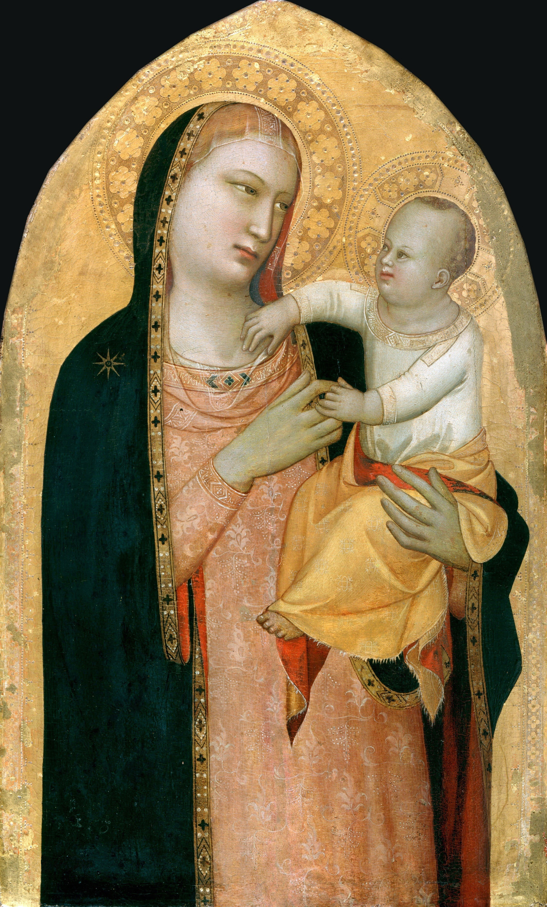 Maso_di_Banco_Madonna_and_Child_1335_Staatlische_Museen,_Berlin